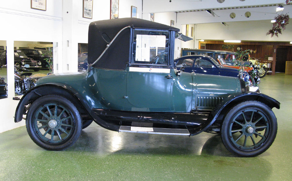 1916 Cadillac Type 53 Victoria.Location: Laganland Bilmuseum, Sweden